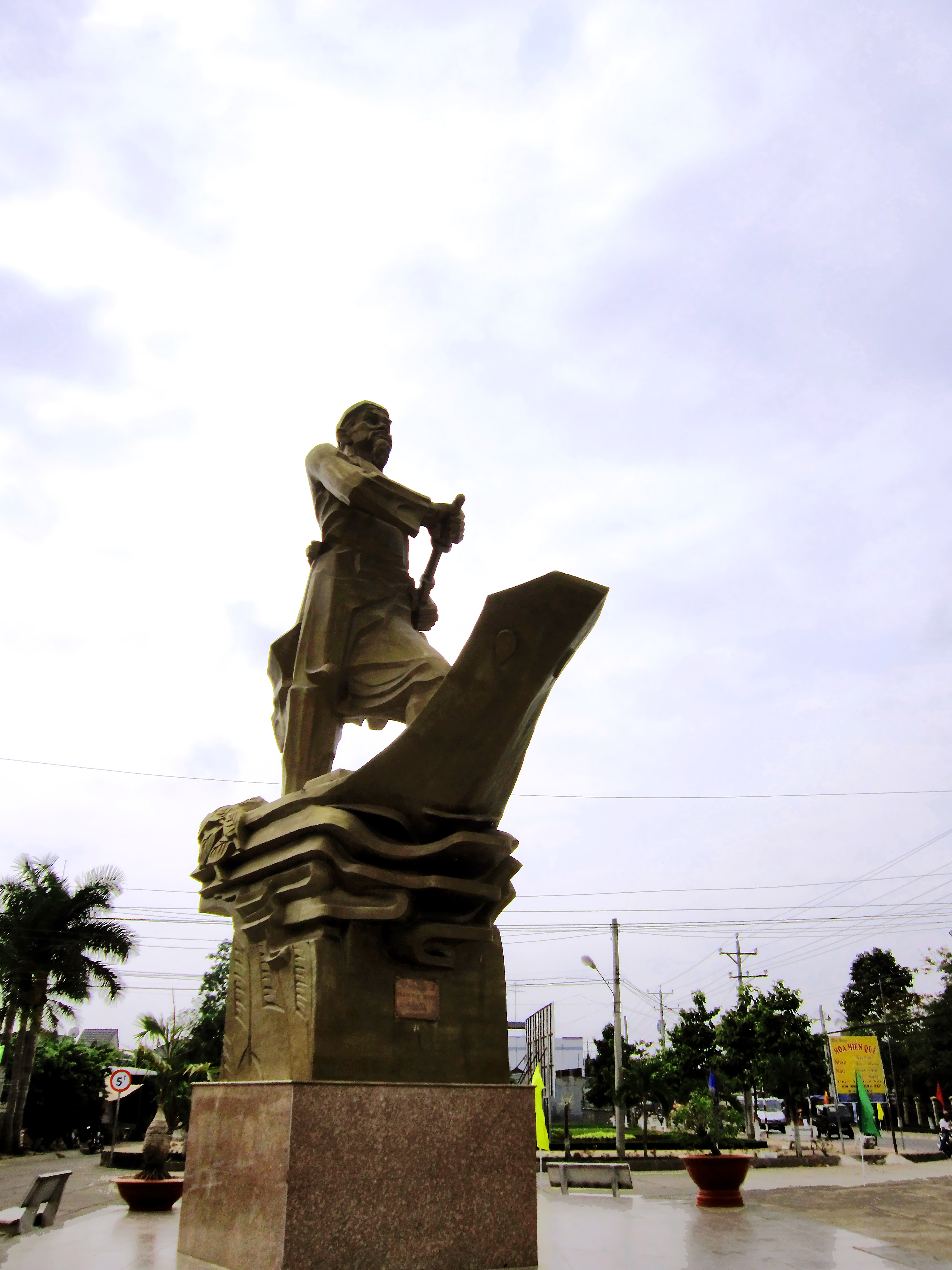 Tượng đài Trần Văn Thành (thủ lĩnh cuộc kháng Pháp ở Bảy Thưa 1867 - 1873) ở thị trấn Cái Dầu, huyện Châu Phú, tỉnh An Giang, Việt Nam.